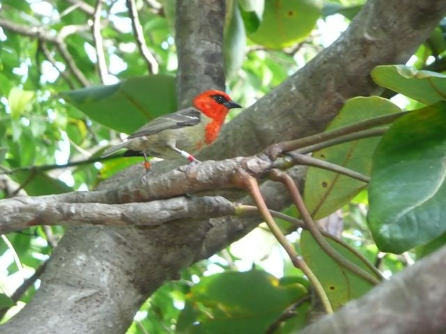 Mauritius Fody, Ile aux Aigrettes nature reserve